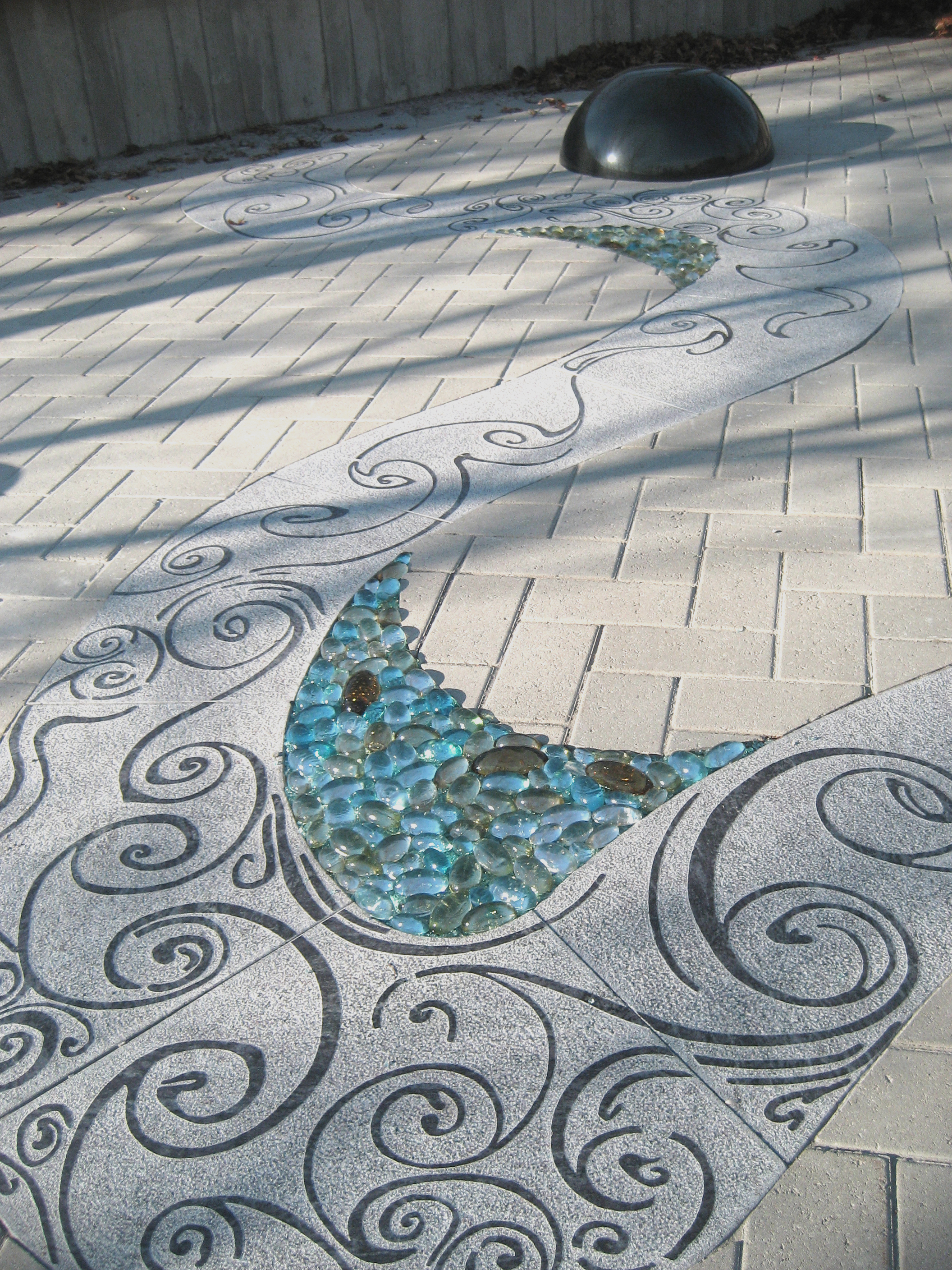 Lotic Meander by Stacy Levy